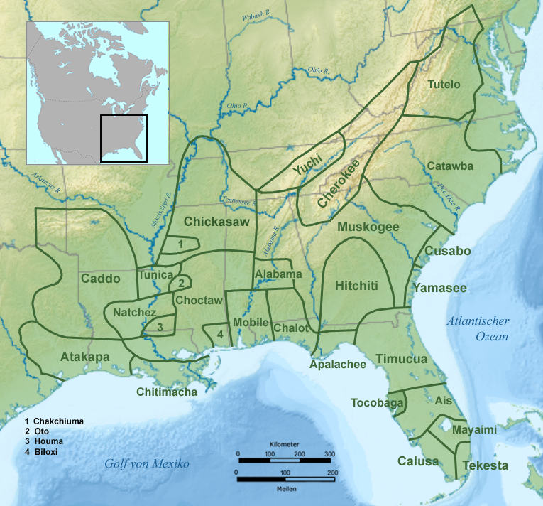 Tribal territory of Tocobaga during sixteenth century